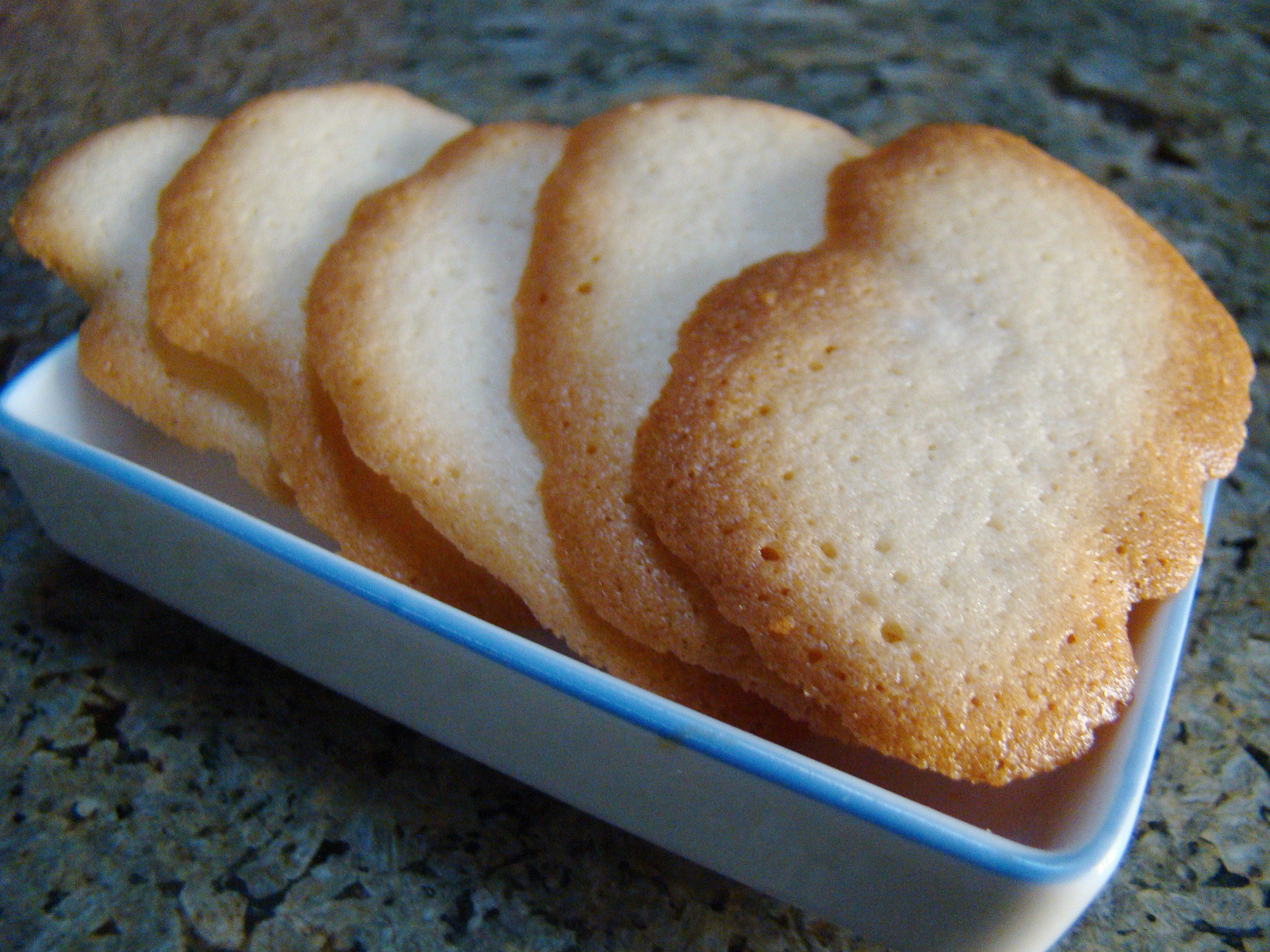 Vegan Langue de chat